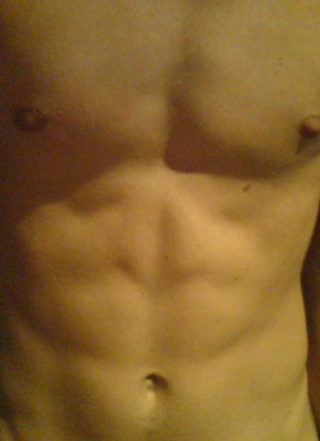 Hard belly abs and nice BellyButton!